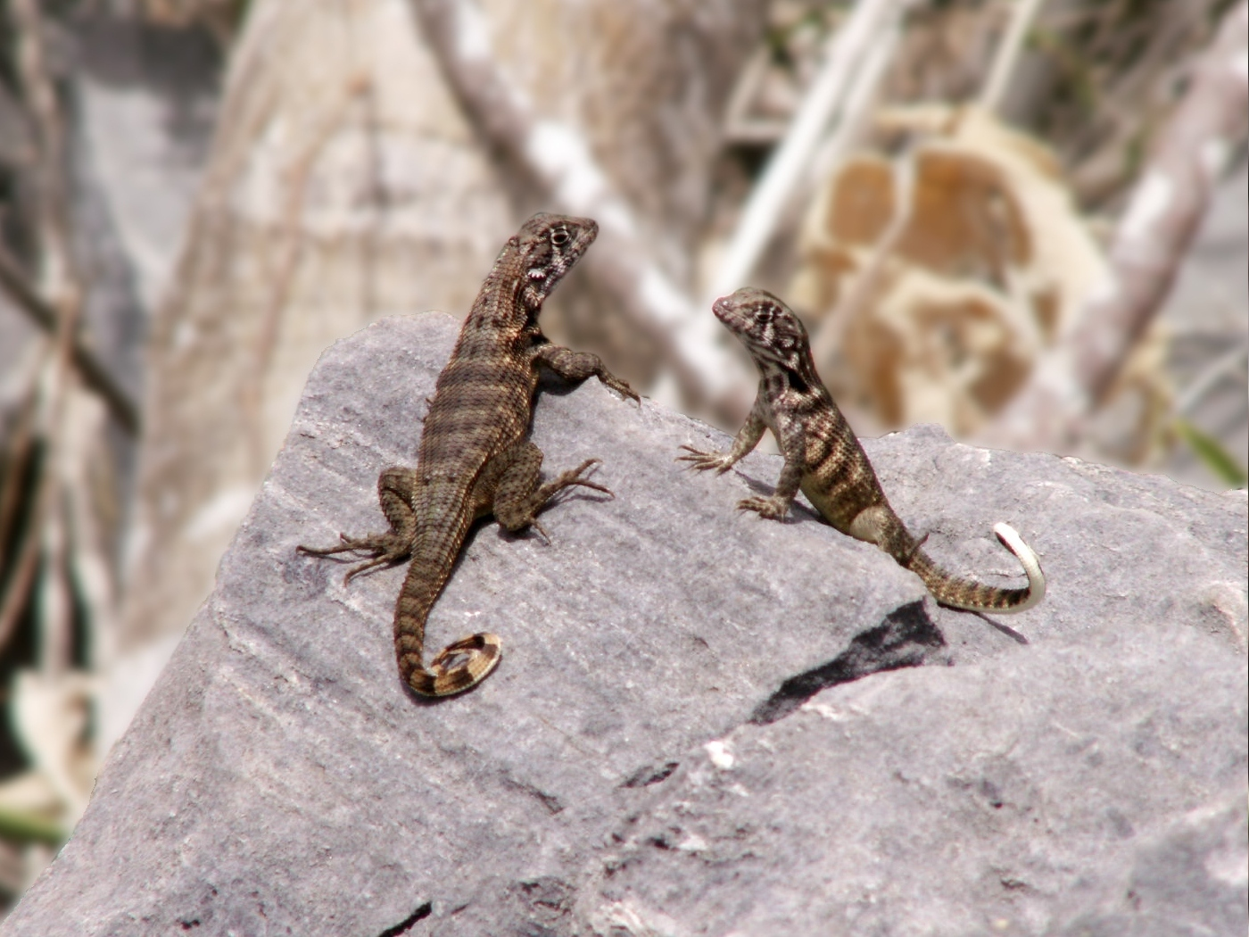 Leiocephalus cubensis, Cuban Curly-tailed lizard. Photo taken at Topes de Collantes nature reserve park, Escambray Mountains, north of Trinidad de Cuba.